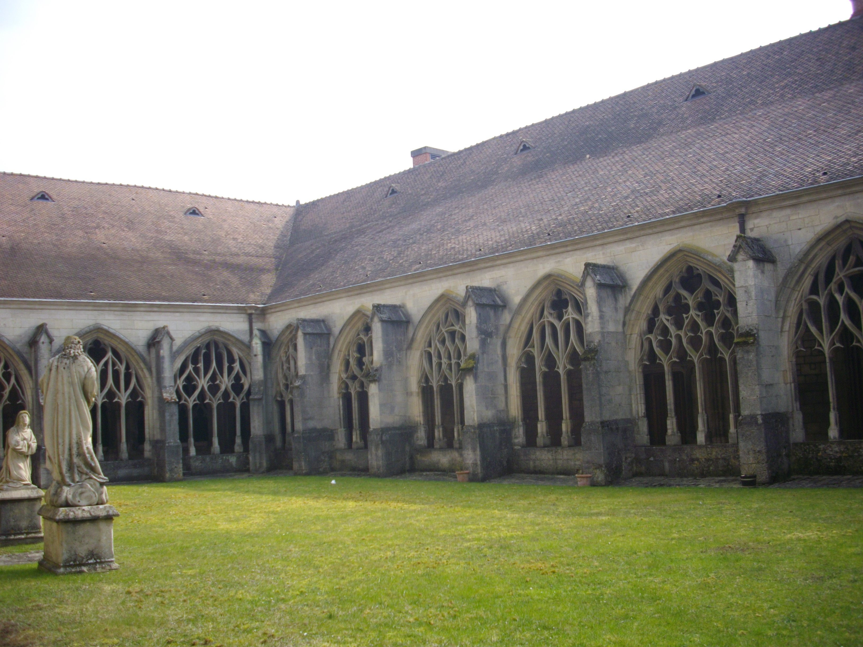 Cloister of Our Lady cathedral of Verdun (Meuse, France) .